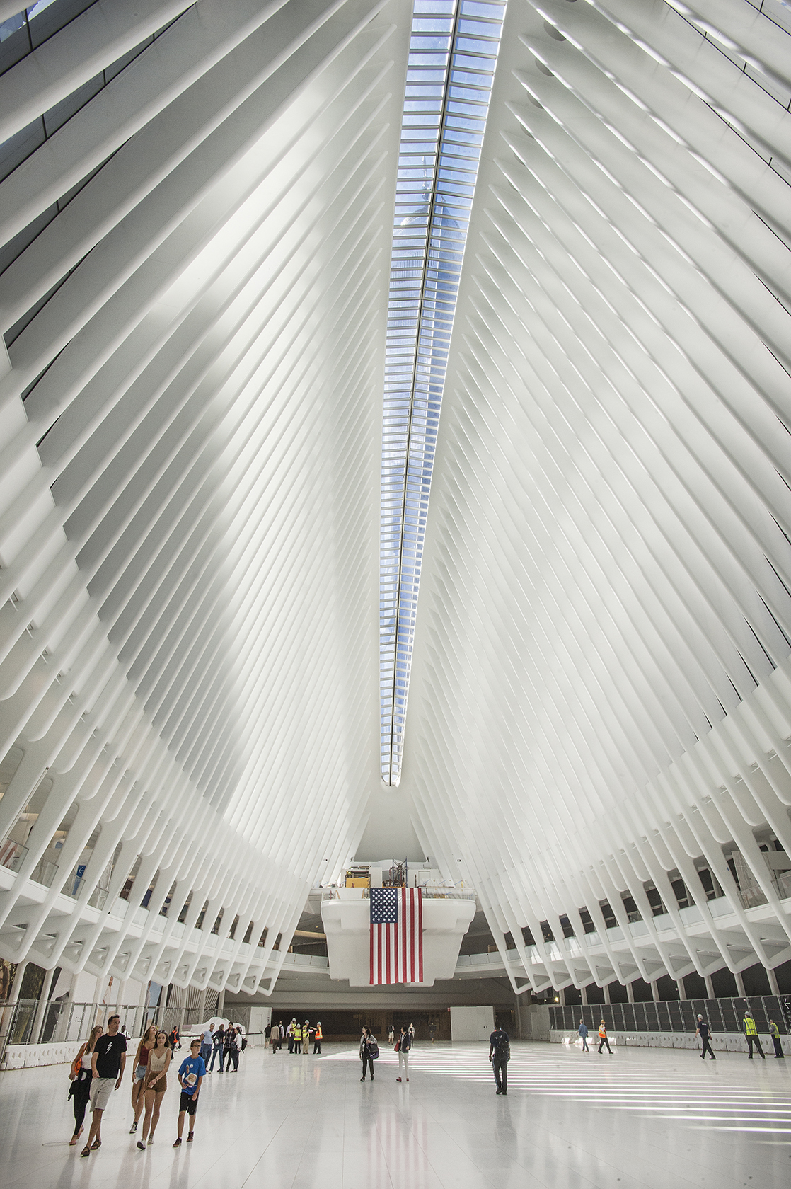 The Dey Street Concourse, a 350 foot-long, 27 foot-wide pedestrian tunnel, allows customers to walk underneath Dey Street between Broadway and Church Street without exiting the station complexes. The connection to the Dey Street Concourse and the PATH World Trade Center station is accessible at the bottom level of Fulton Center. Photo: Patrick Cashin / Metropolitan Transportation Authority